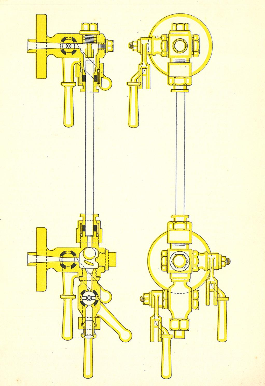 Boiler water level gauge Steam boiler water level gauge Scans from 'Stokers' Manual 1912', the Royal Navy's standard training handbook, "for engine-room ratings not entitled to the steam manuals and seamen under training in mechanical and stokehold work". See other images from this source in Scans from 'Stokers' Manual 1912'